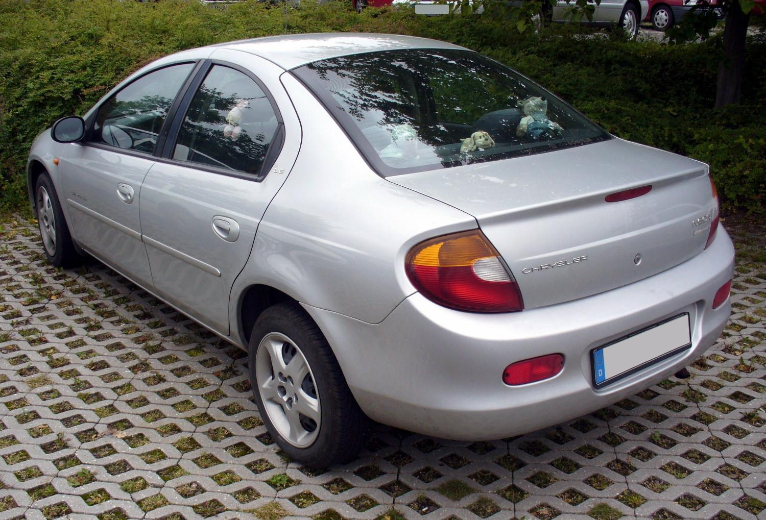 Chrysler Neon